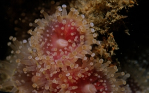 photo of single strawberry anemone, Corynactis annulata taken in 20m of water in False Bay, South Africa using a Nikonos V camera